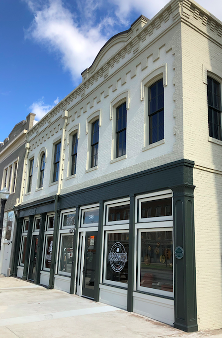 Exterior of Mercer Music at Capricorn on Martin Luther King Jr Blvd in downtown Macon, previously Capricorn Sound Studios.